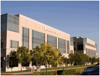 Quest Software Headquarters - Aliso viejo